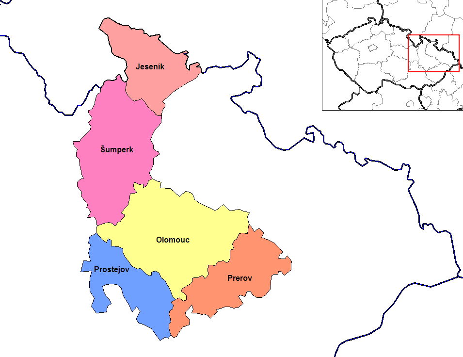 Map of the districts of Olomouc region of the Czech Republic. Created by Rarelibra 15:13, 2 January 2007 (UTC) for public domain use, using MapInfo Professional v8.5 and various mapping resources.